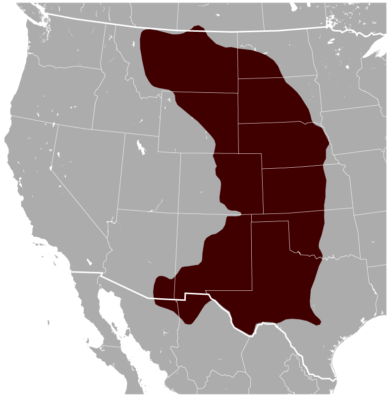 Geographical distribution of the Black-tailed Prairie Dog Cynomys ludovicianus. The map was created using the Generic Mapping Tools, GMT, version 5.1.1.